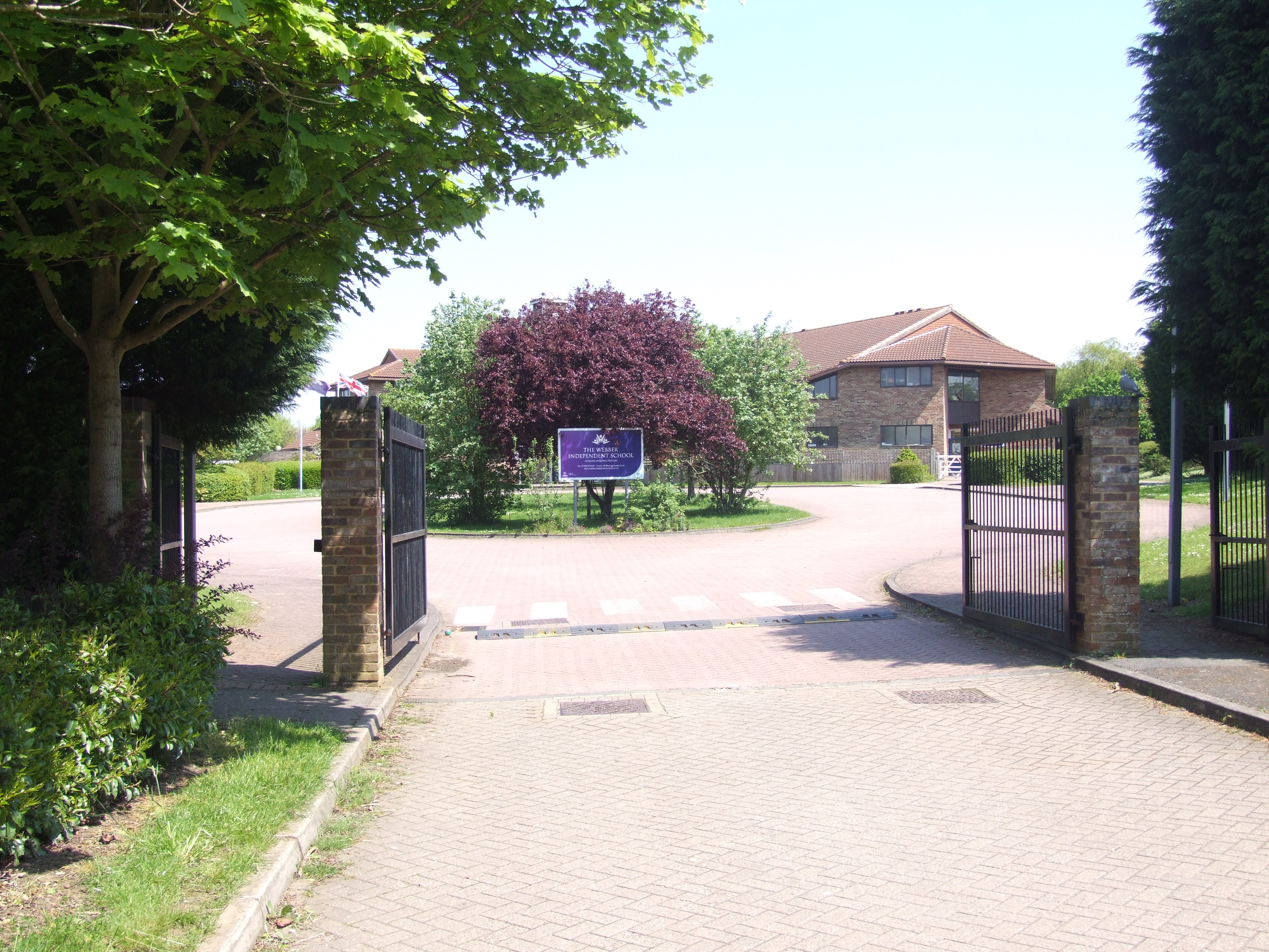 View across to the School